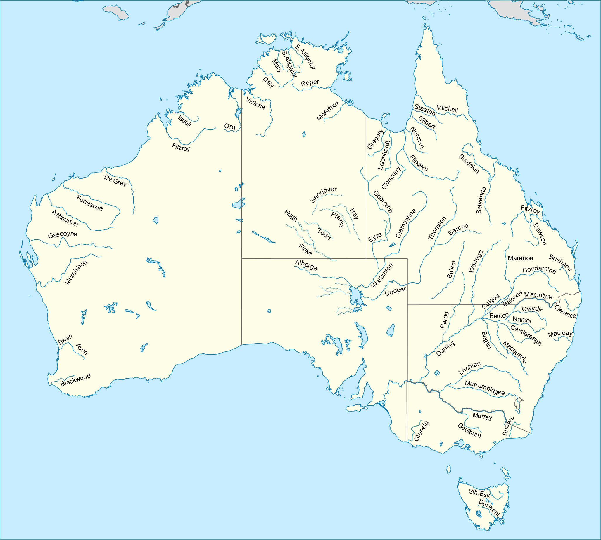 This MAP contains an error; click on this link to view the corrected version:Australia River systems Named.svg